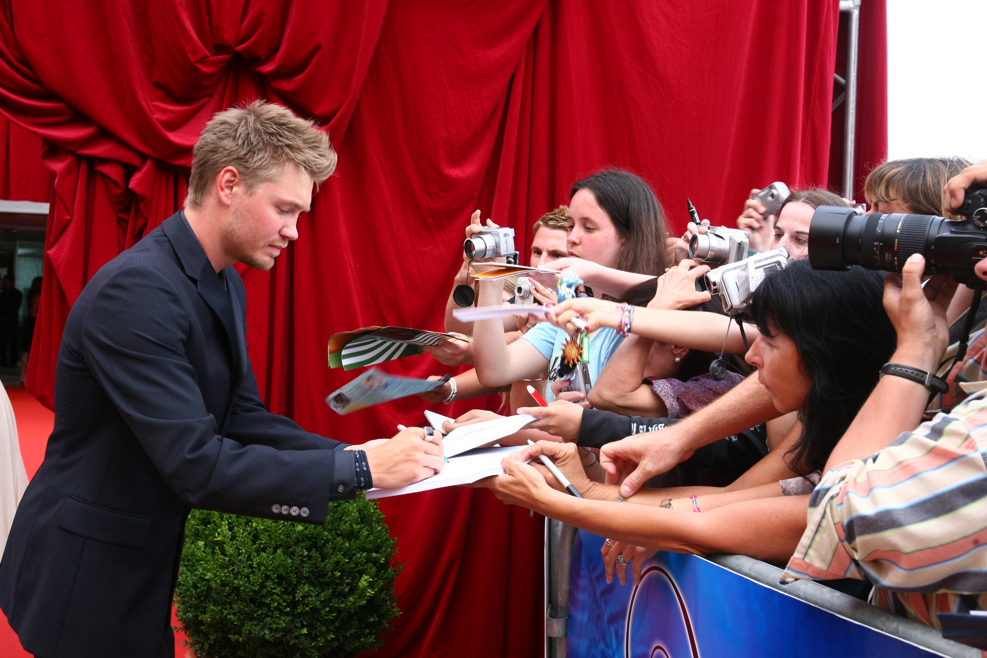 Chad Michael Murray at the 2007 Monte-Carlo Television Festival.